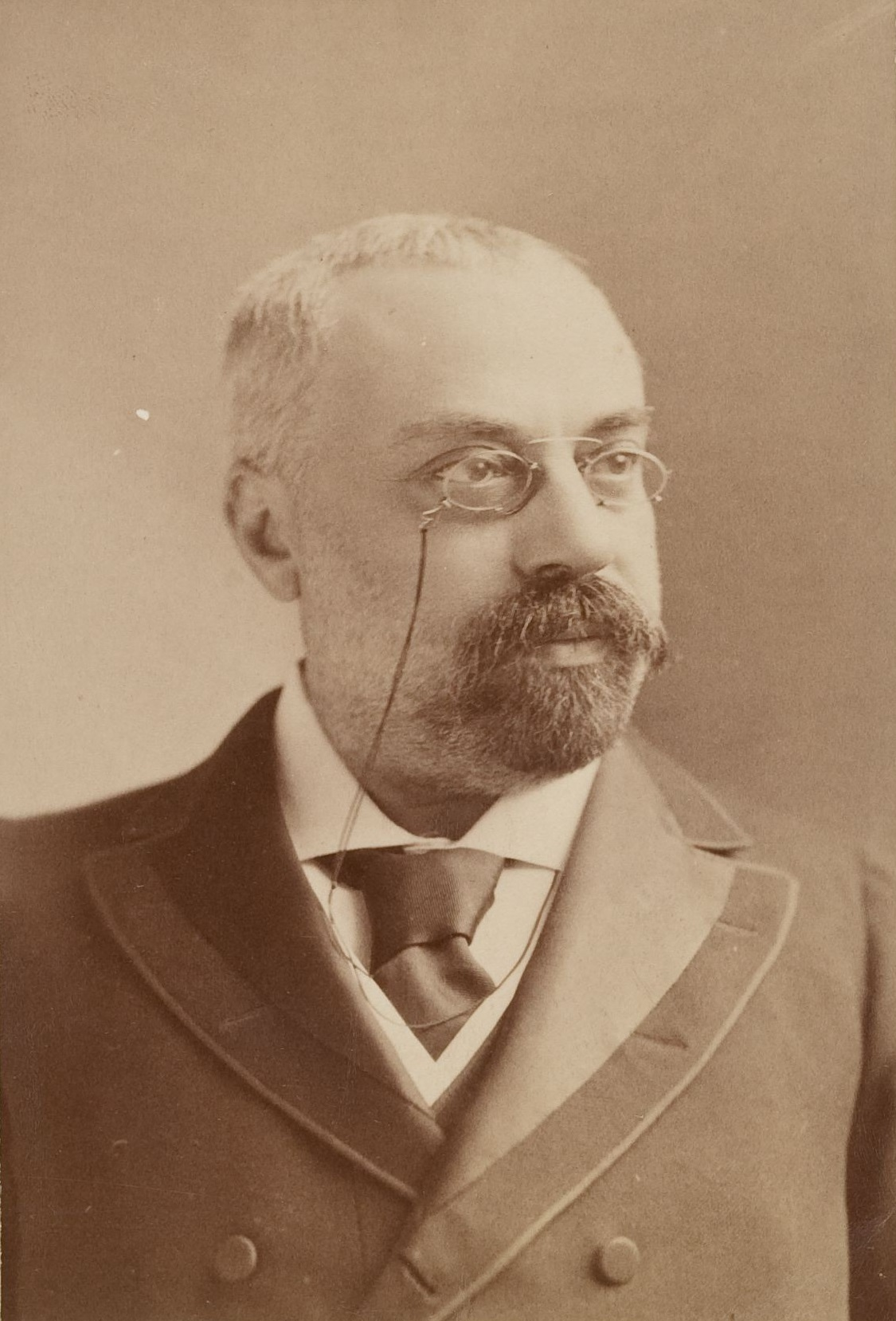 Cabinet card image of Italian conductor, composer, and impresario Enrico Bevignani (1841-1903). TCS 1.2462, Harvard Theatre Collection, Harvard University